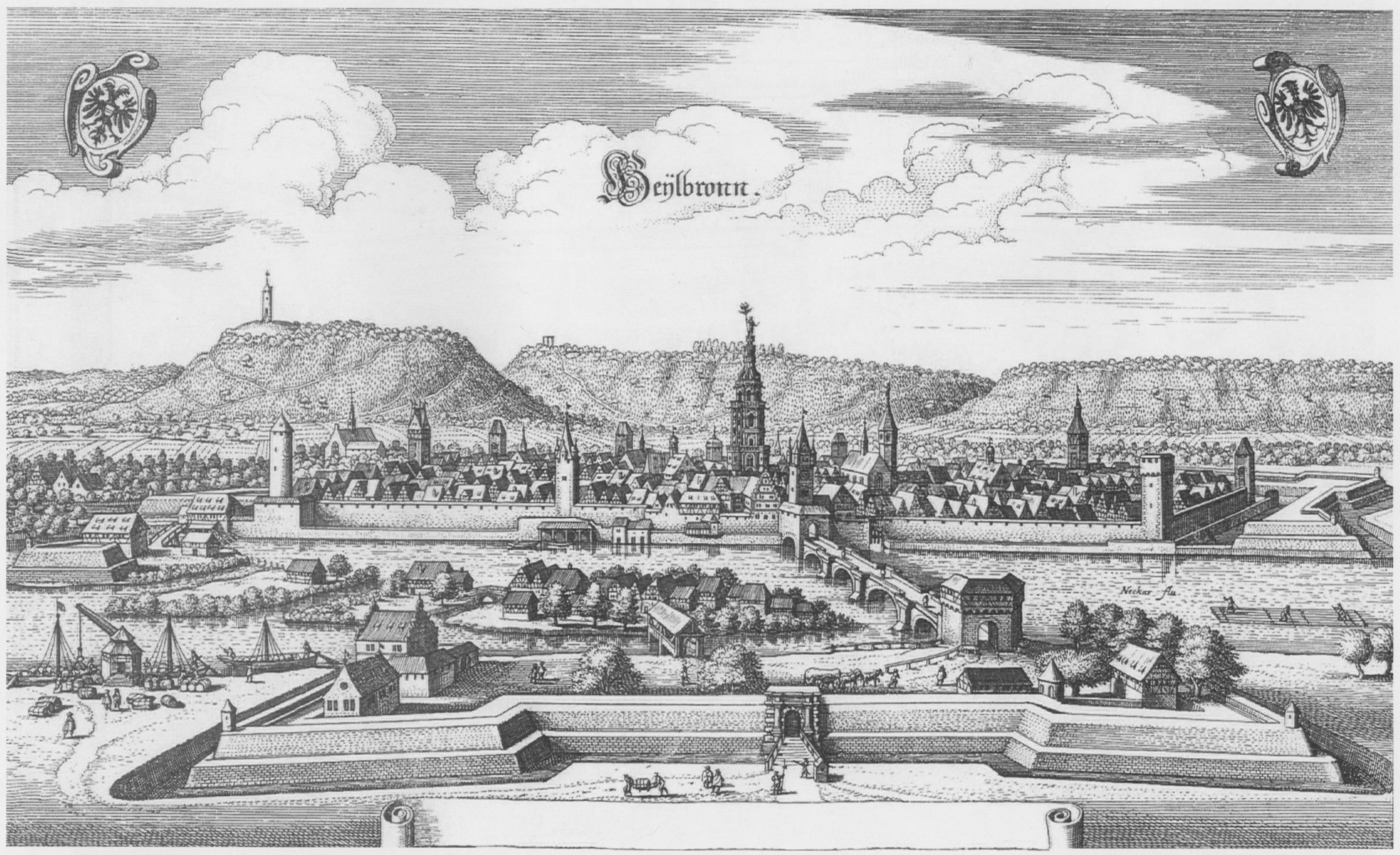 Heilbronn. Engraving from 1643, 34,5 x 20,5 cm, by Matthäus Merian, from the Topographia Sveviae.